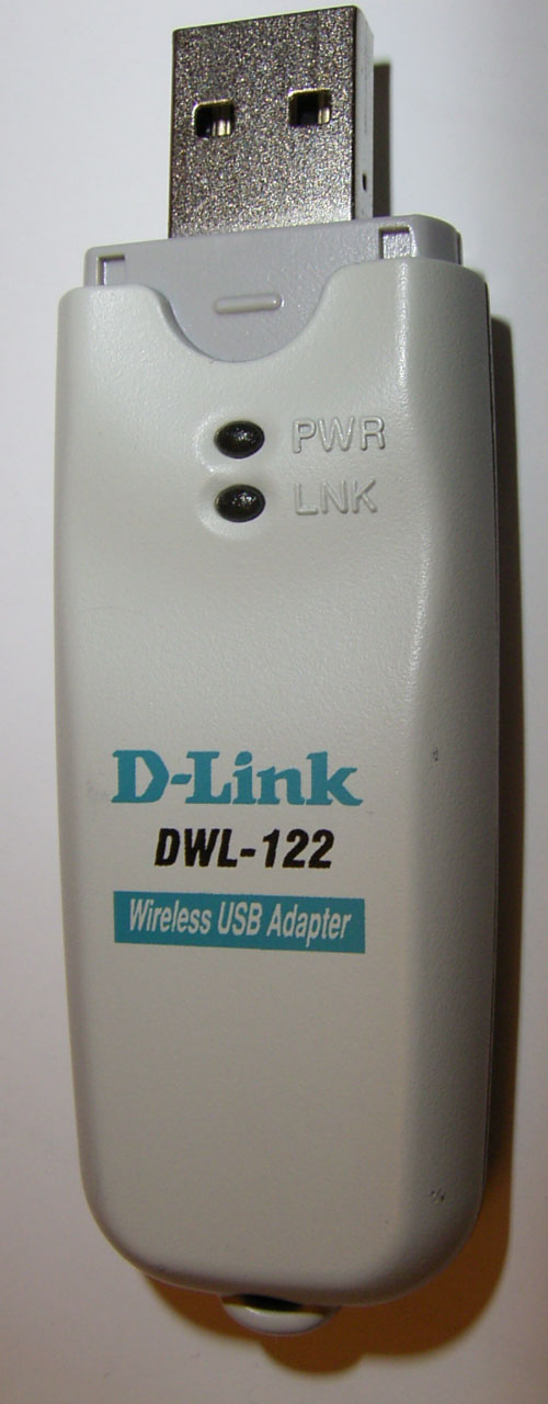 D-Link DWL-122 USB WiFi adapter